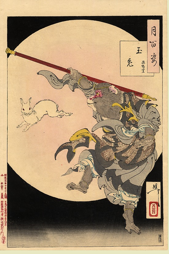 Jade rabbit and monkey dramatically framed against an enormous moon tinged with pink.